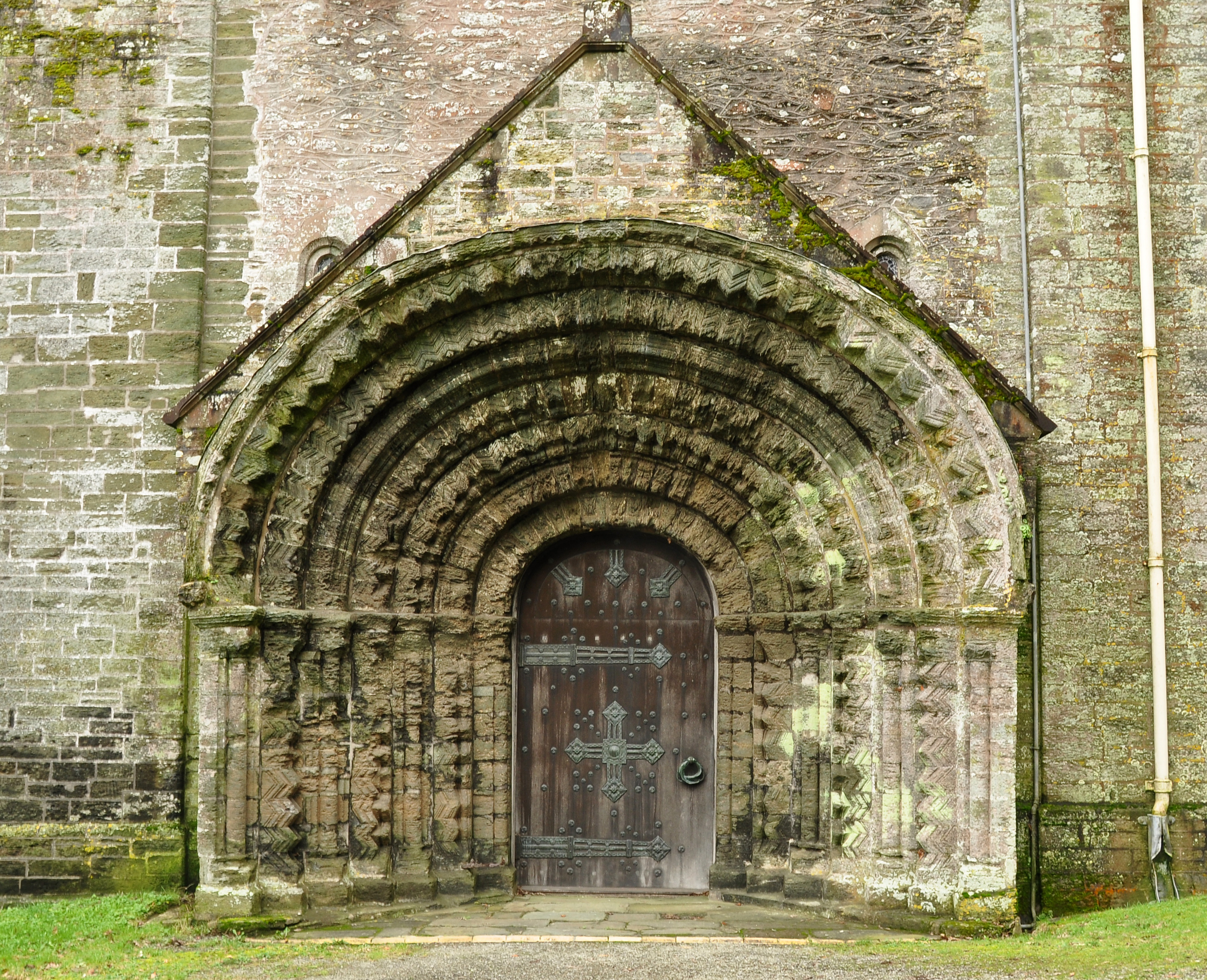 West door of the priory church of St Germanus in St German's, Cornwall